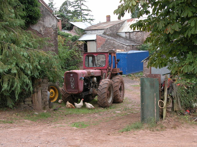 Old tractor (Dutra D4K) at Dan-y-graig.